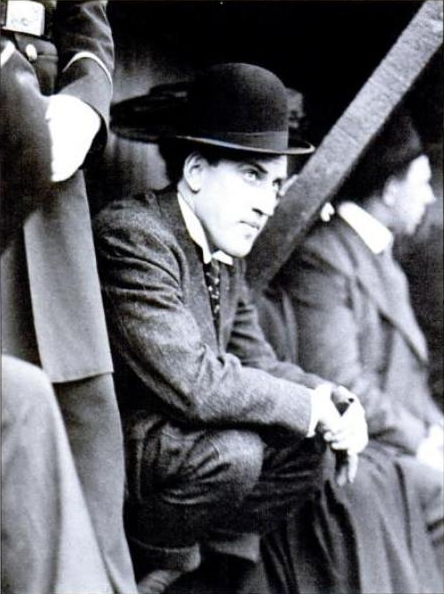 John Irving Taylor, former owner of the Red Sox from 1904 until 1911. Responsible for building Fenway Park and renaming the team